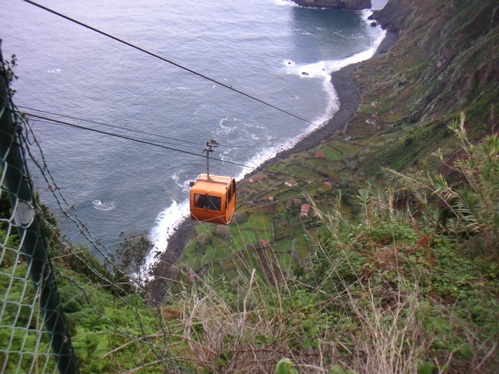 Near the town of Santana on the northern coast is this small two car Cable Car that leads down to a small patch of terraced fields next to the rocky beach. The Teleferico isn't for tourists. It seems mostly to be for the few locals who live or farm down there.